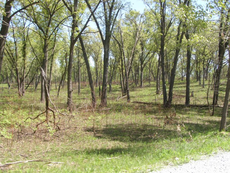 Open forest of Conrad Savanna Nature Preserve in Newton County, Indiana